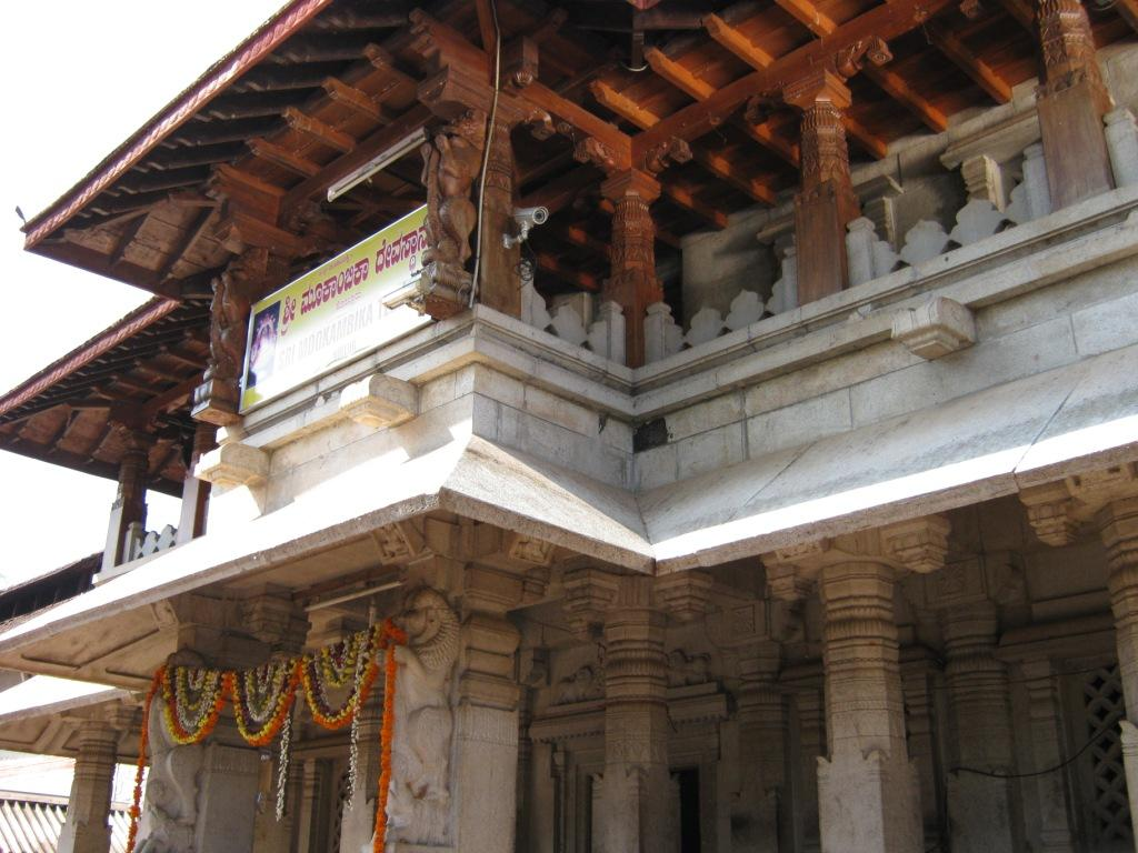 Kollur Temple, Kundapura